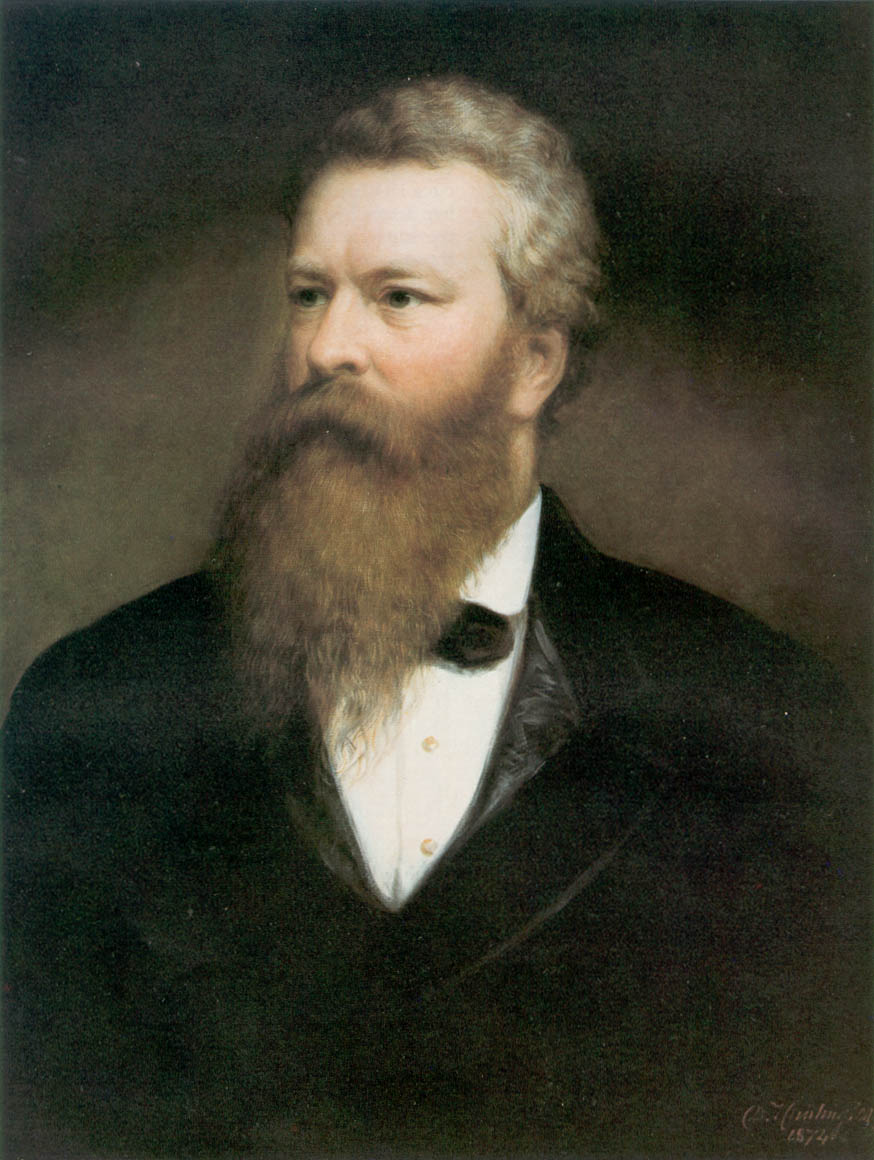 William W. Belknap, 30th United States Secretary of War.